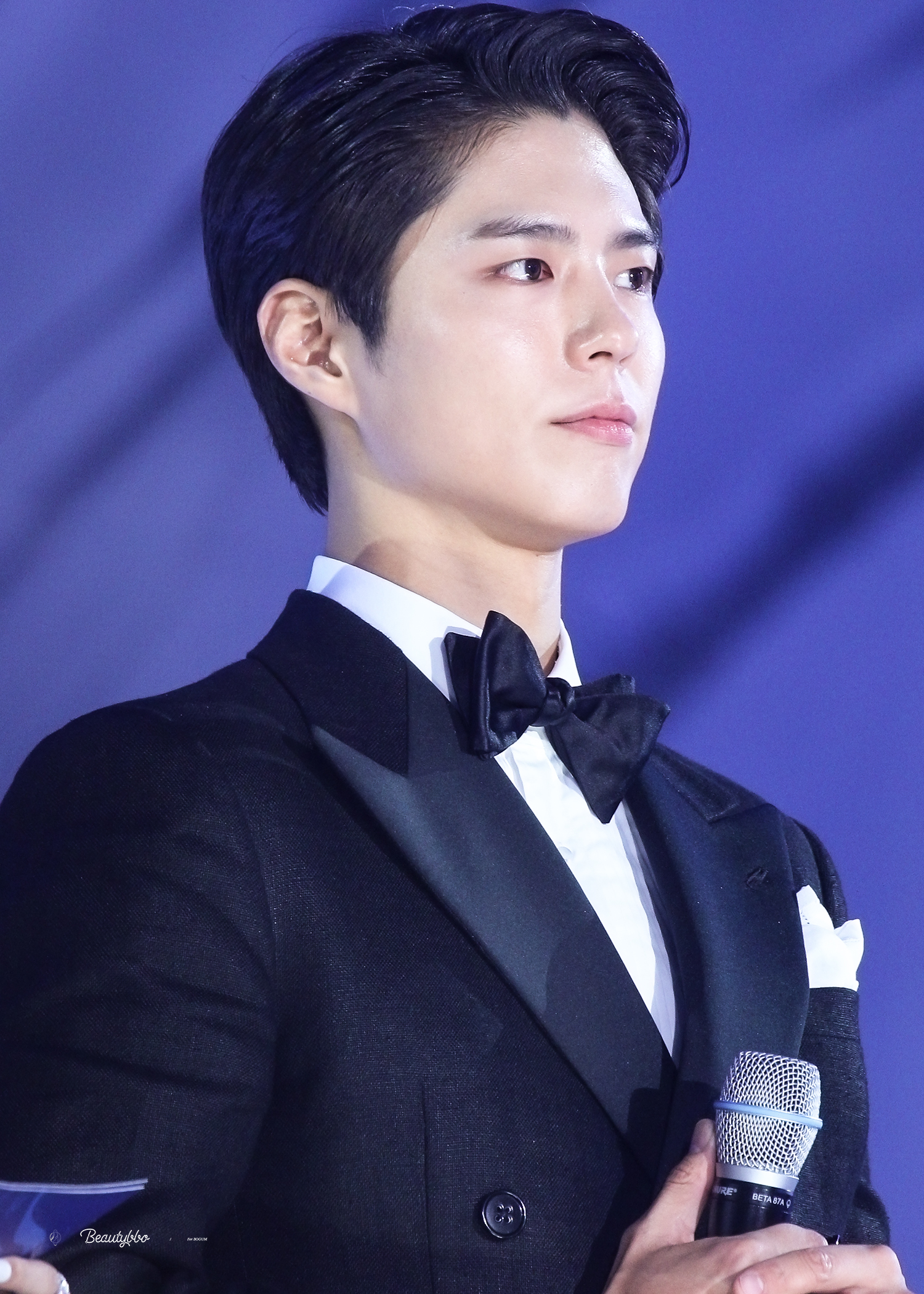 Park Bo-gum at the Baeksang Art Awards on May 1, 2019.